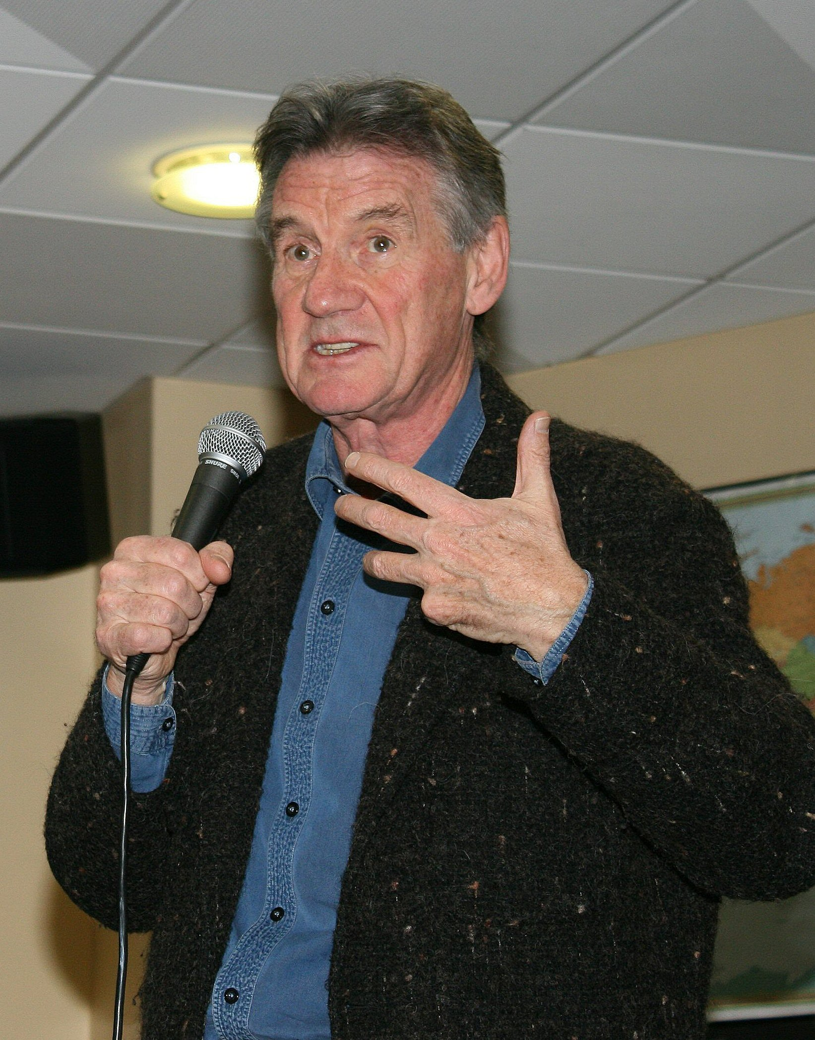 Michael Palin, Nightingale House, Nov 2010